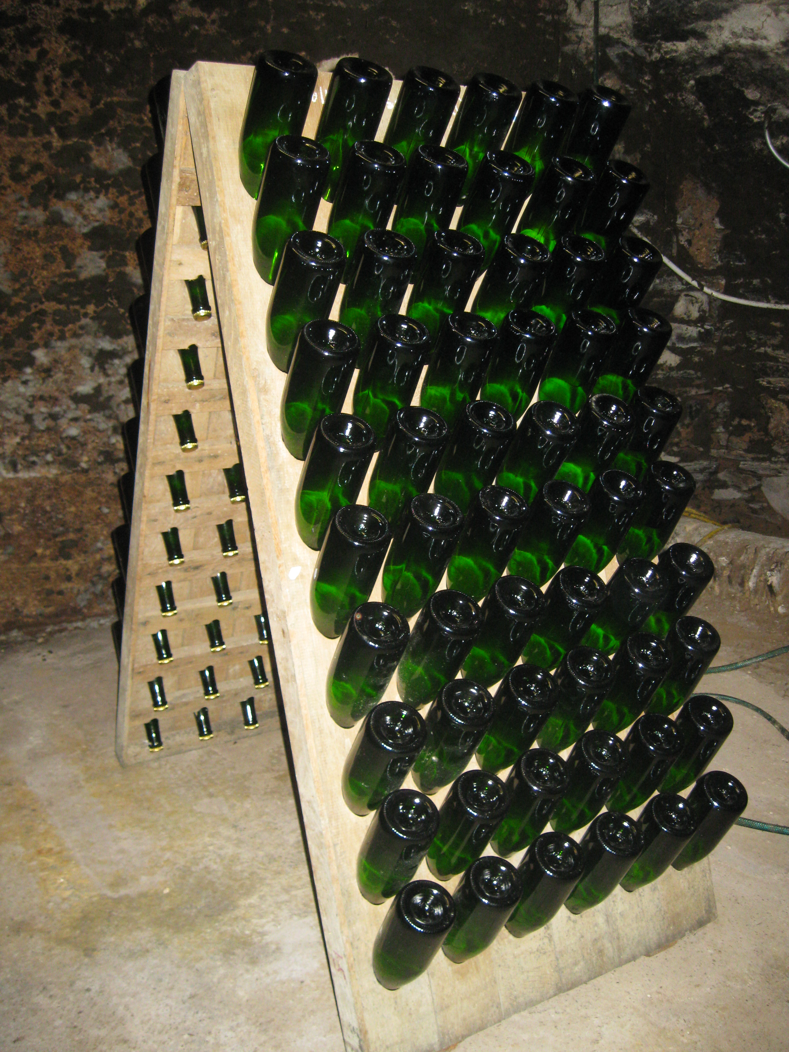 Original Champagne riddle rack